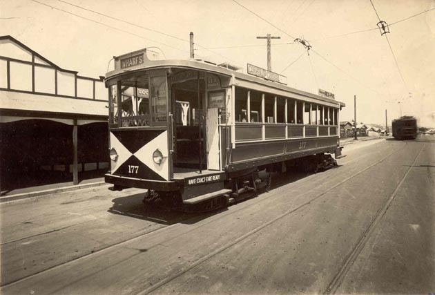 Description: Brisbane one man tram, No 177 which entered service in December 1929, pictured on Enoggera Terrace, Red Hill Date: December 1929